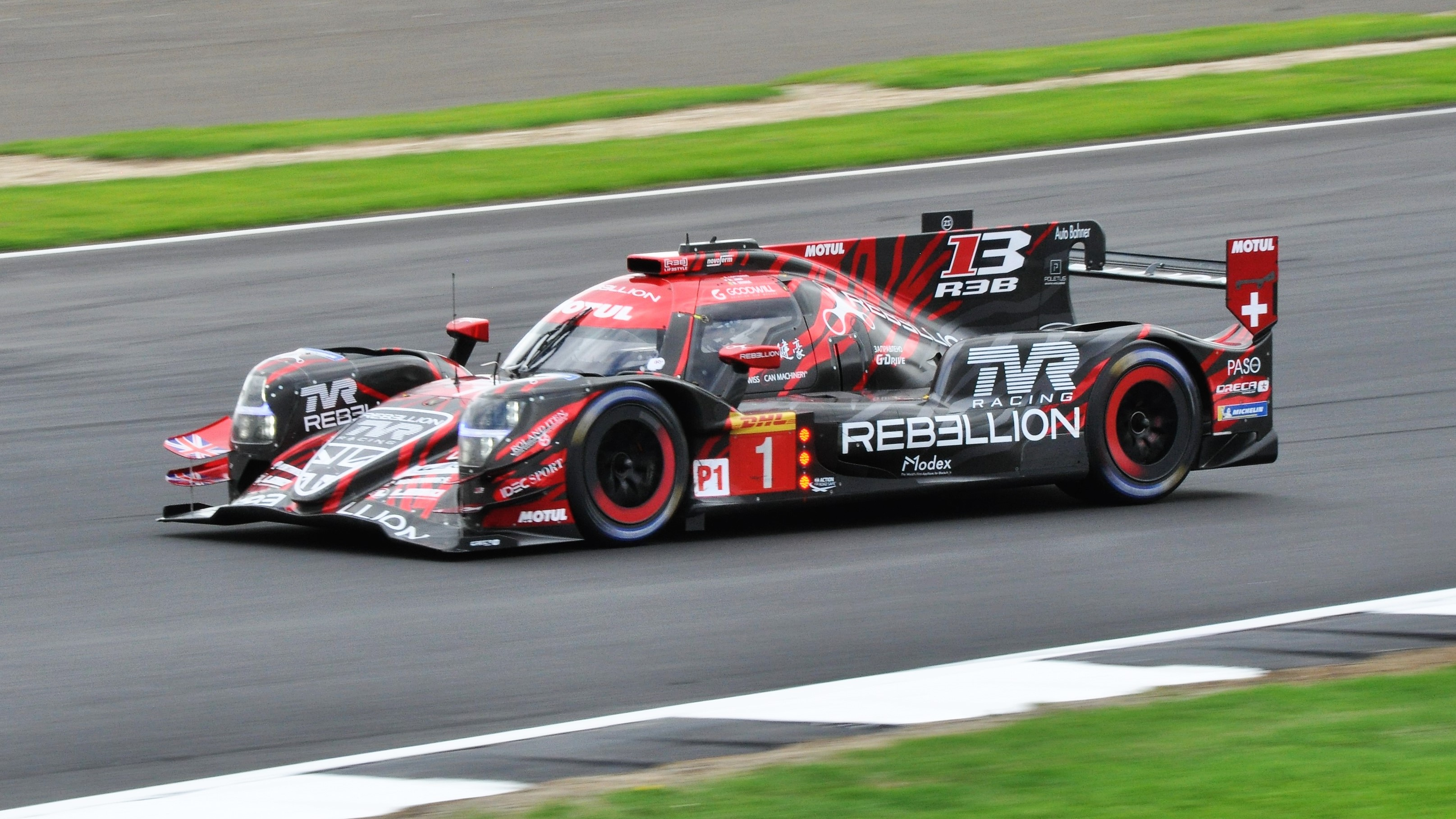 Swiss driver André Lotterer enters Village corner in the number 1 works Rebellion R13 car, during the 2018 6 Hours of Silverstone race. Lotterer and his co-driver, Neel Jani, drove without third driver Bruno Senna after the latter suffered a broken ankle in a crash during practice. Despite this, Jani and Lotterer finished in second position. At the time this photo was taken their car was lying third (hence, three red lights) behind the two Toyota entries that were later disqualified.